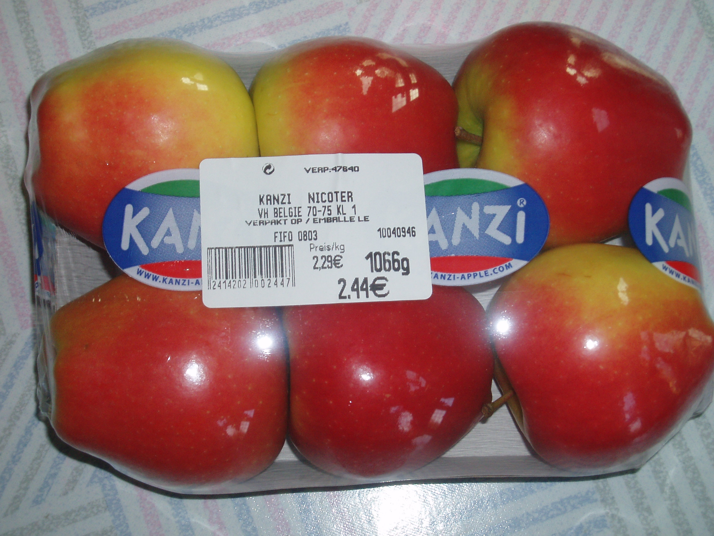 Kanzi Nicoter